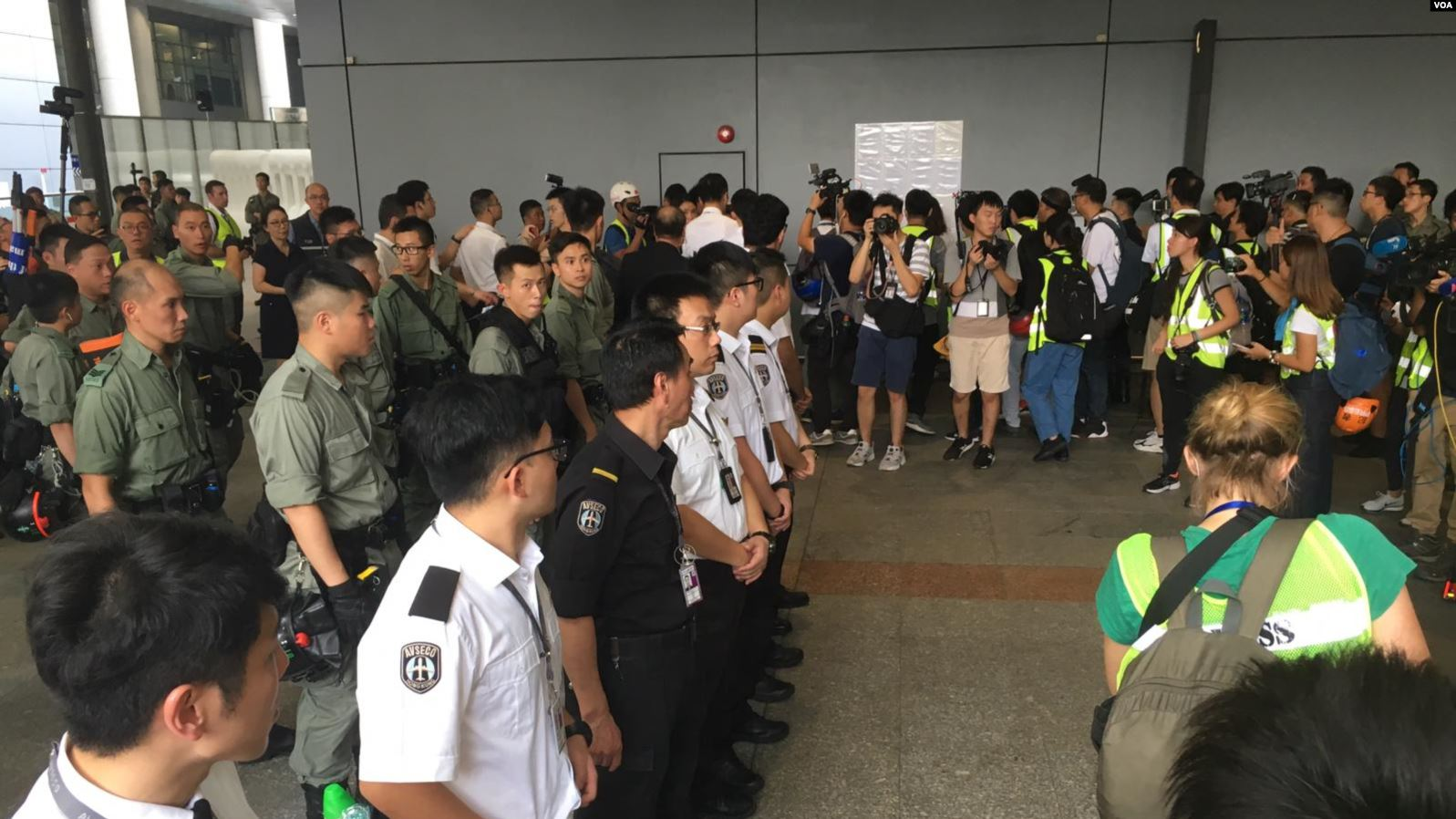 Hong Kong police in position at airport ahead of planned protests.